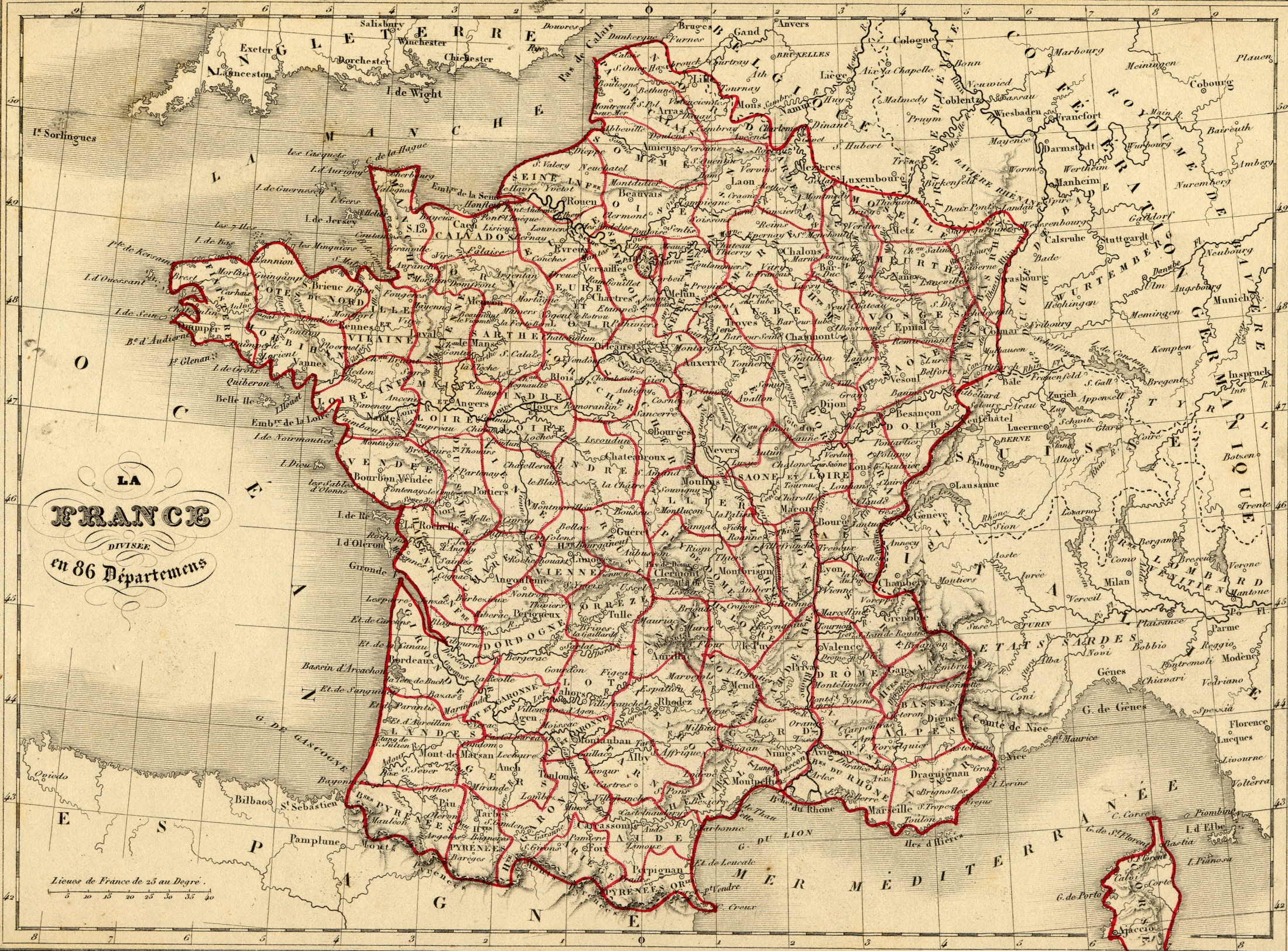 Map of France (wp-EN) with french names made by Alexandre Vuillemin in 1843 extracted from his “Atlas universel de géographie ancienne et moderne à l'usage des pensionnats”.